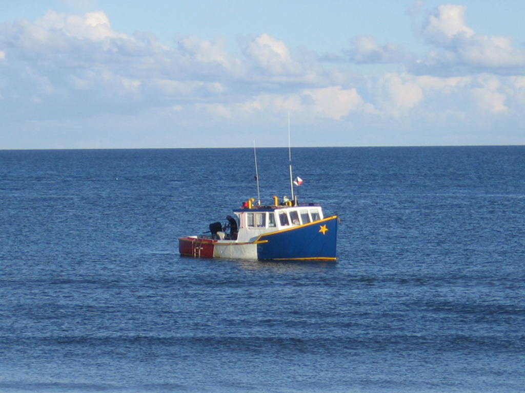 Acadian boat